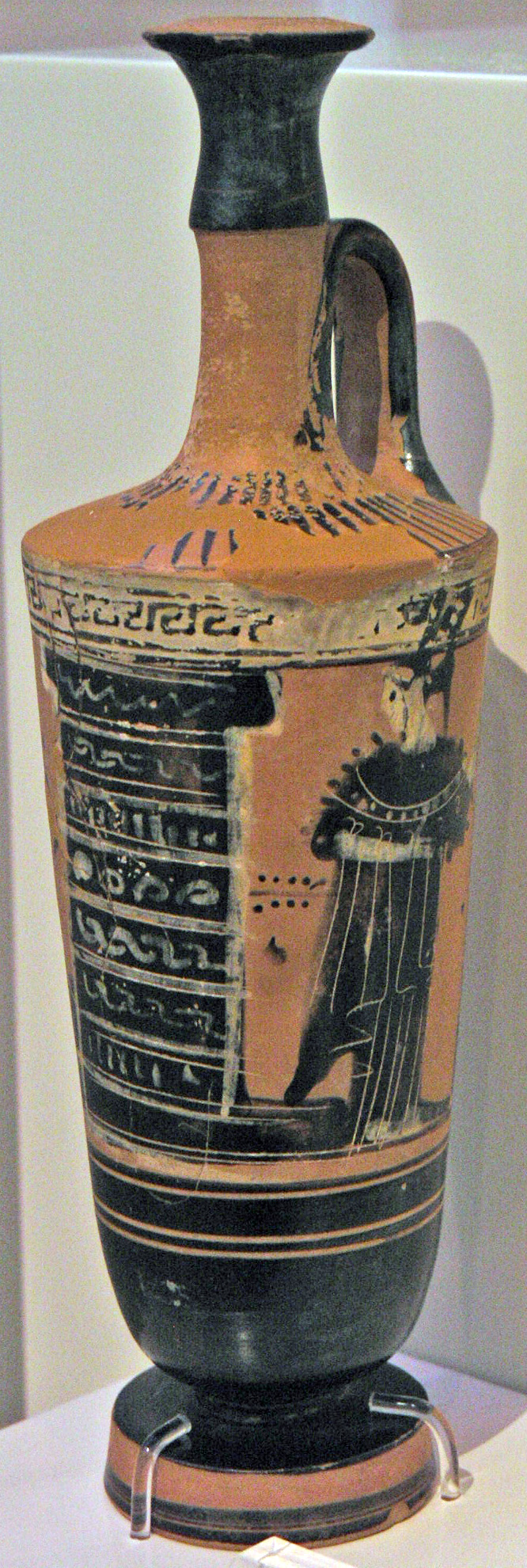 Lekythos. Theseus, Minotaur and Athena in the Labyrinth. From Vari. By the Beldam Painter. About 480 BC.